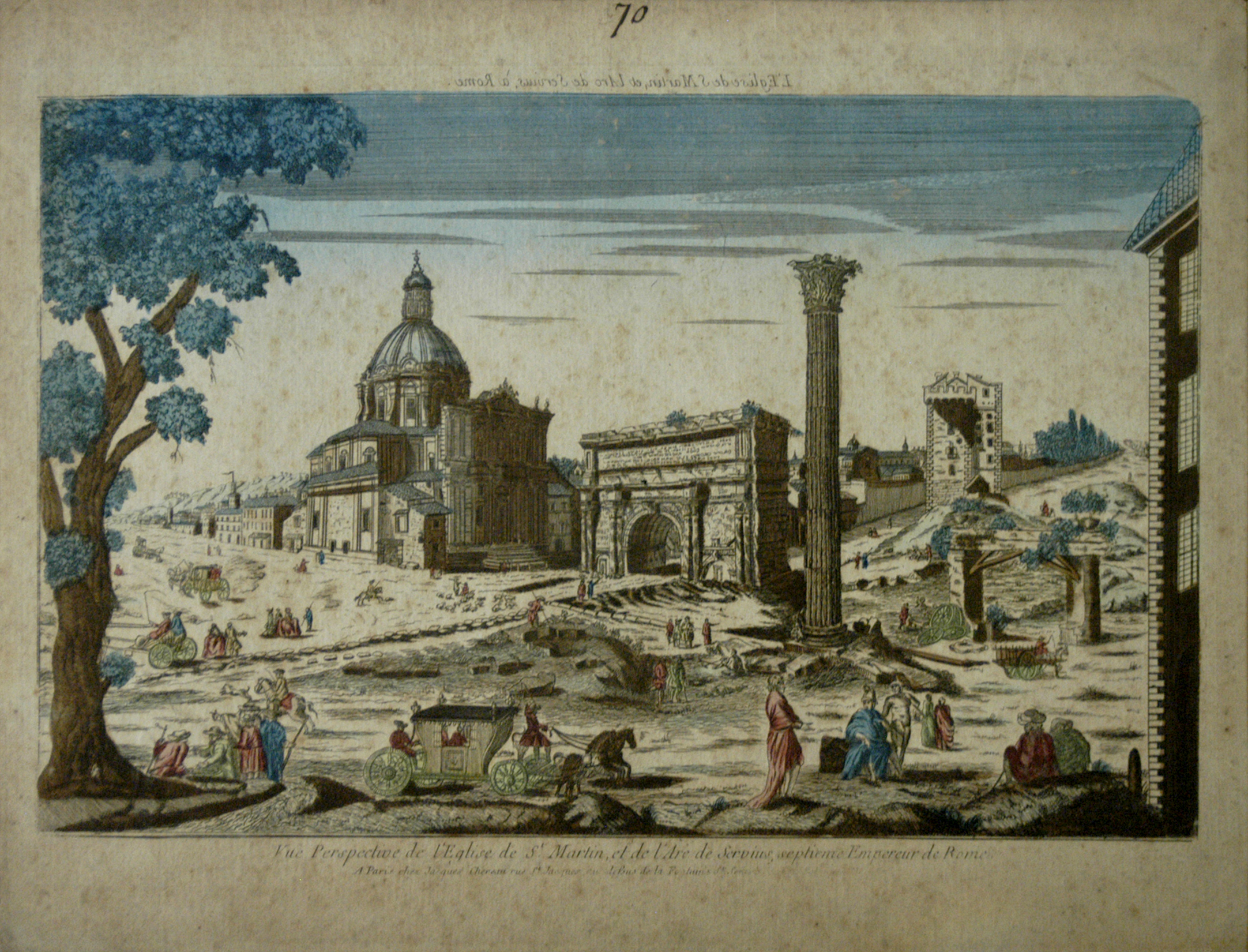 A View of the Roman Forum by Jacques Chéreau (1688 - 1776). Top Caption: L'Eglise de S Martin, et l'Arc de Servius, a Rome. Lower Caption: Vue Perspective de l'Eglise de San Martin, et de l'Arc de Servius, septieme Empereur de Rome A Paris chez Jacques Chereau rue St. Jacques au dessus de la Fontaine St Severin (faded). Translation: The Church of St. Martin and the Arch of Servius in Rome. A Perspective View of the Church of San Martin, and of the Arc of Servius, the seventh Emperor of Rome. In Paris with Jacques Chereau, rue St Jacques de la Fontaine above St. Severin (remainder of legend should have print number, unfortunately worn off and faded). Top Caption is reversed because Vue Perspective prints are mirror images - intended to be viewed though a Zograscope or similar mirrored and lensed device. Vue Perspective prints were made from approximately 1740 to 1820. This image is c.1750. Hand numbered #70 at the top. On reverse of print is reversed ink stain #69. Paper is hand-made rag. Intaglio engraving with hand applied watercolors. 16.5 x 12.875 in // 41.9 cm x 32.7 cm